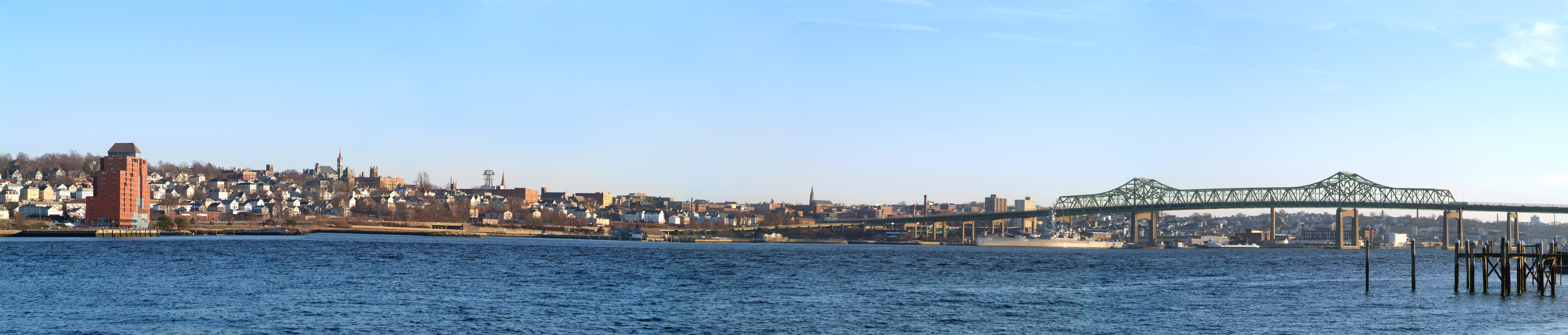 This is a panorama of Fall River I took on a very chilly February afternoon. This view, fused together from four images taken in succession, shows Fall River from the Somerset side of the Taunton River illuminated by the sunset to the right of the camera. Battleship Cove, the Braga Bridge, and Fall River's Family Court in the old Durfee High School building can be seen.